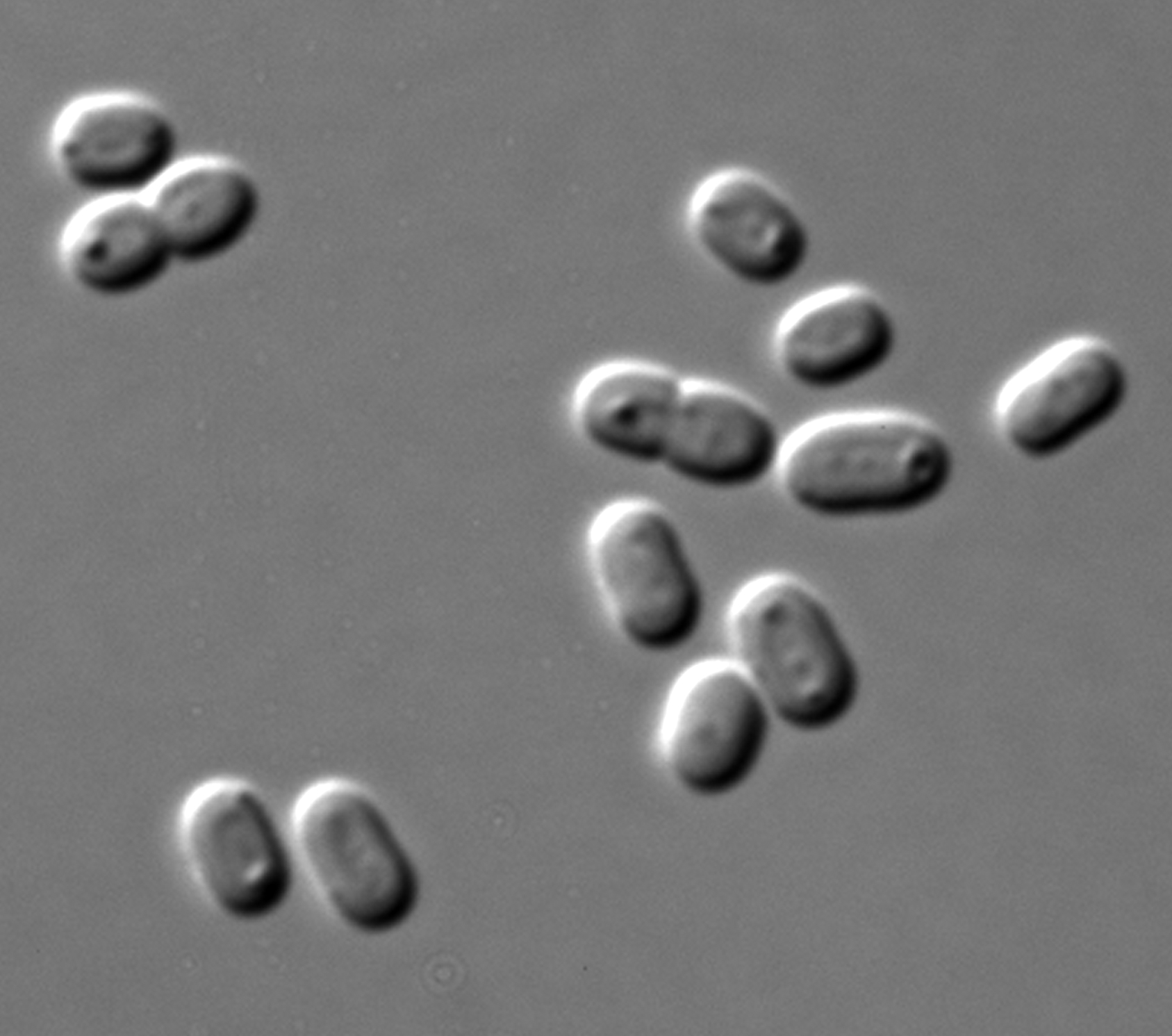 Synechococcus PCC 7002 in DIC microscopy. Imaging was performed with the Olympus BX61 microscope and a UPlanSApo 100× NA 1.40 oil immersion objective (Olympus). Pictures were acquired at room temperature in water with a camera (SPOT; Diagnostic Instruments, Inc.) using MetaMorph software (MDS Analytical Technologies).